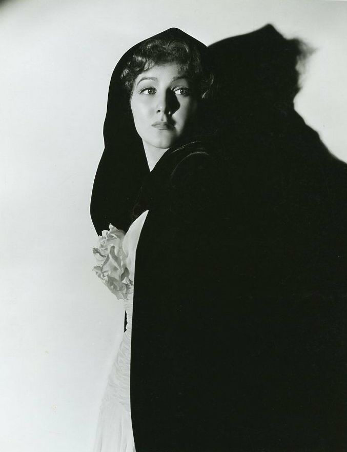 Publicity photo of Jean Parker from 1935.